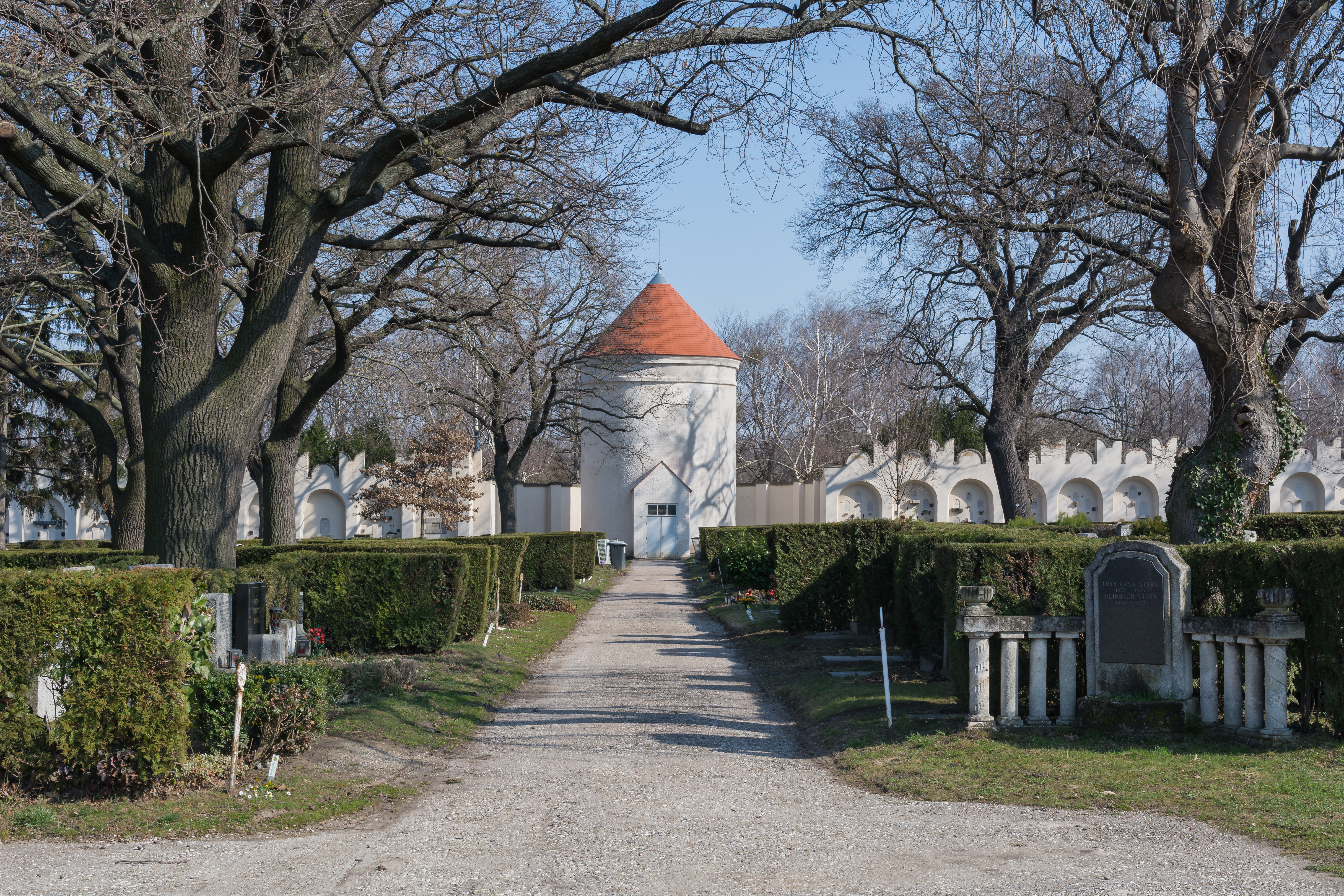 The crematory "Feuerhalle Simmering" in Vienna is surrounded by a large cemetery with urn burials. The wall with tower in the back was formerly the enclosure of the garden of castle Neugebäude.